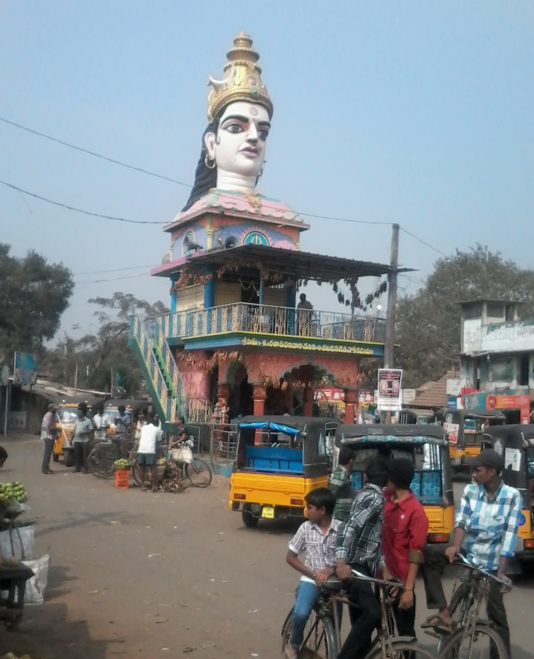 devi chowk at kadiyam, east godavari district.